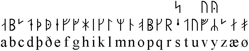 Medieval Runes